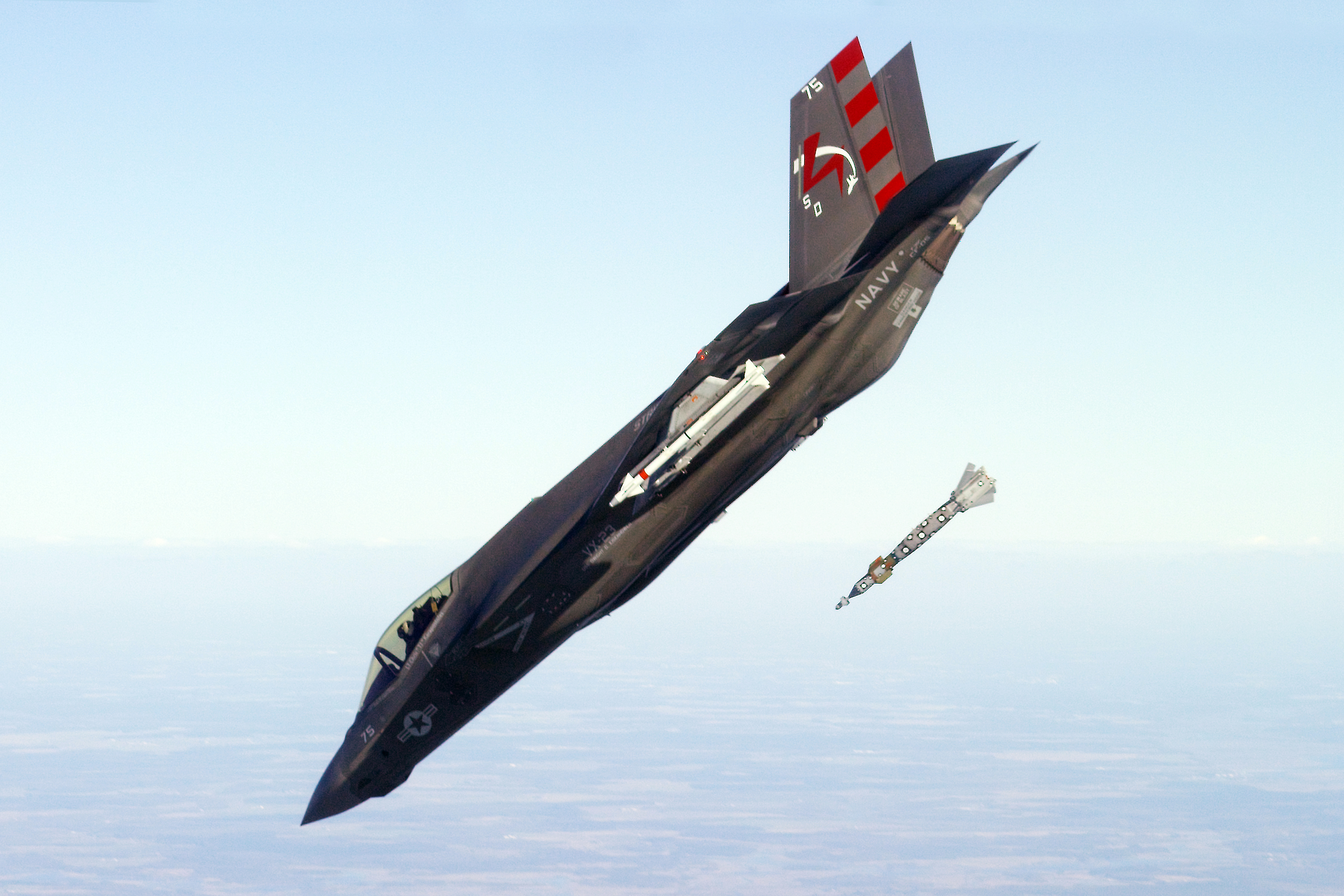 Cmdr. Tony "Brick" Wilson takes aircraft CF-05, an F-35C Lightning II carrier variant, into a 45-degree dive during an external GBU-12 weapons separation test February 18, 2016.